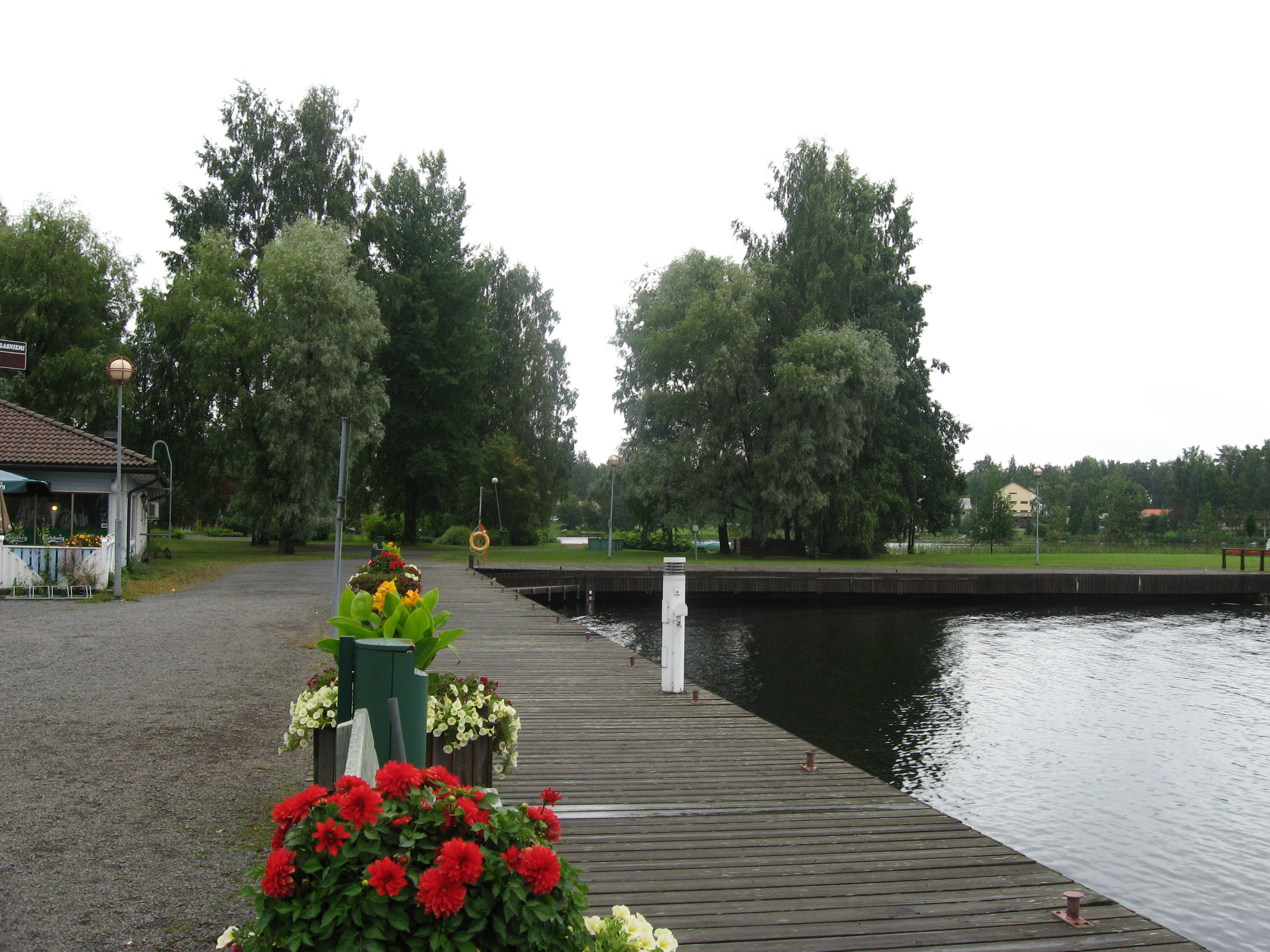 Meijerinlahti bay in Kangasniemi, Finland